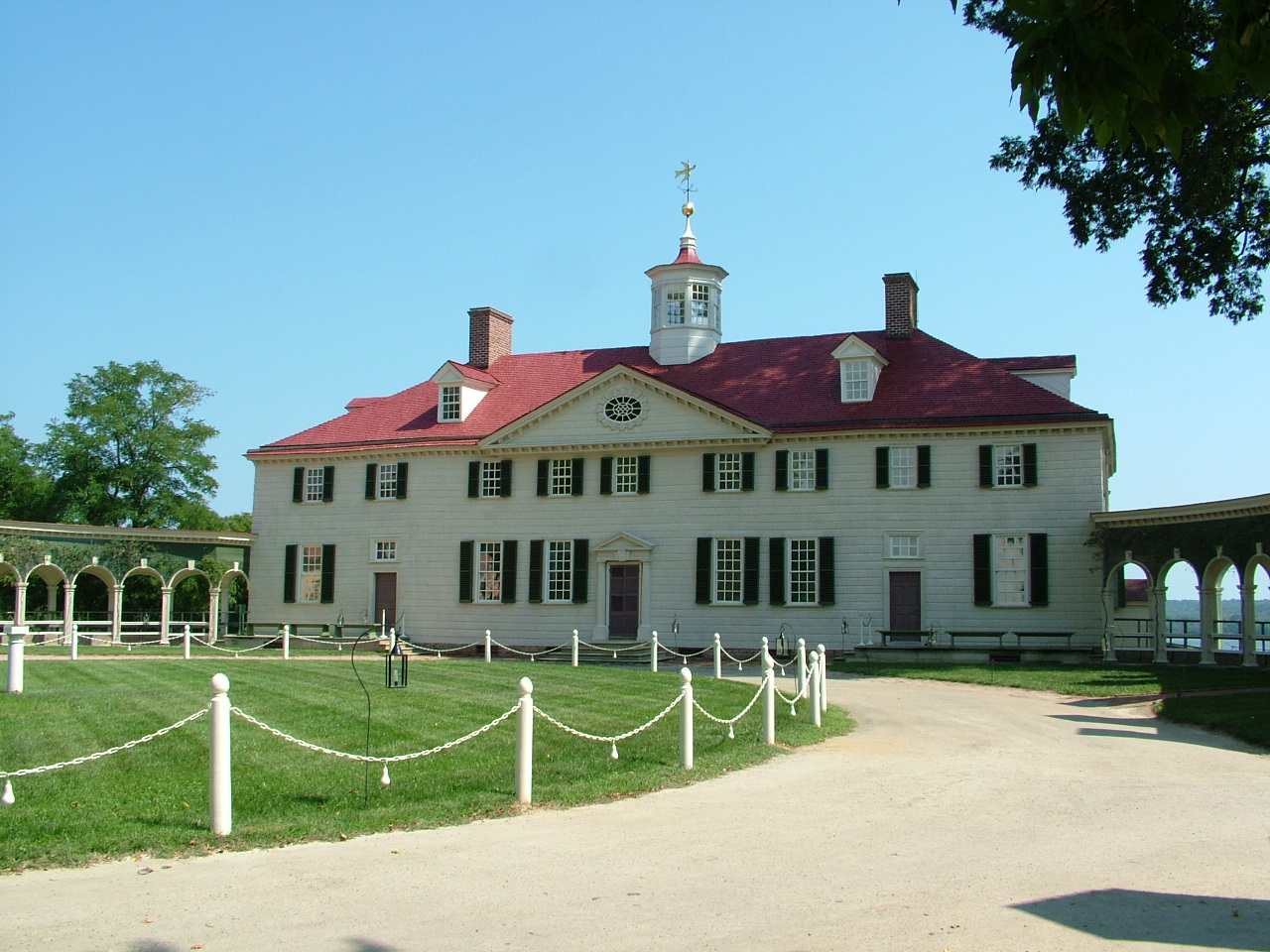 Mount Vernon